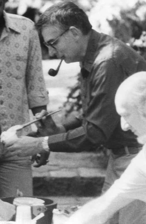 Robert Vaught, UC Berkeley Logic Group Picnic 1977